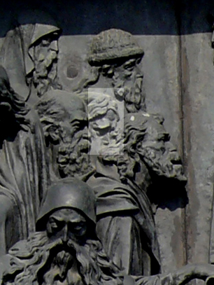 Savvaty Solovetsky on the Monument "Millennuim of Russia" in Veliky Novgorod